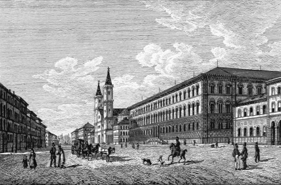 Image extracted from page 29 of above. Original held and digitised by the British Library. Note: The colours, contrast and appearance of these illustrations are unlikely to be true to life. They are derived from scanned images that have been enhanced for machine interpretation and have been altered from their originals.